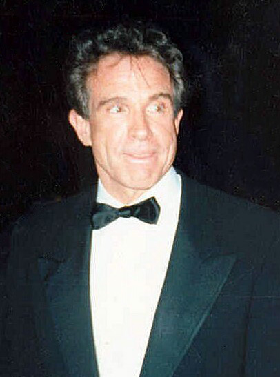 Warren Beatty at the Academy Awards